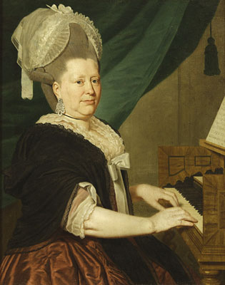 Portrait of a Noblewoman playing the harpsichord